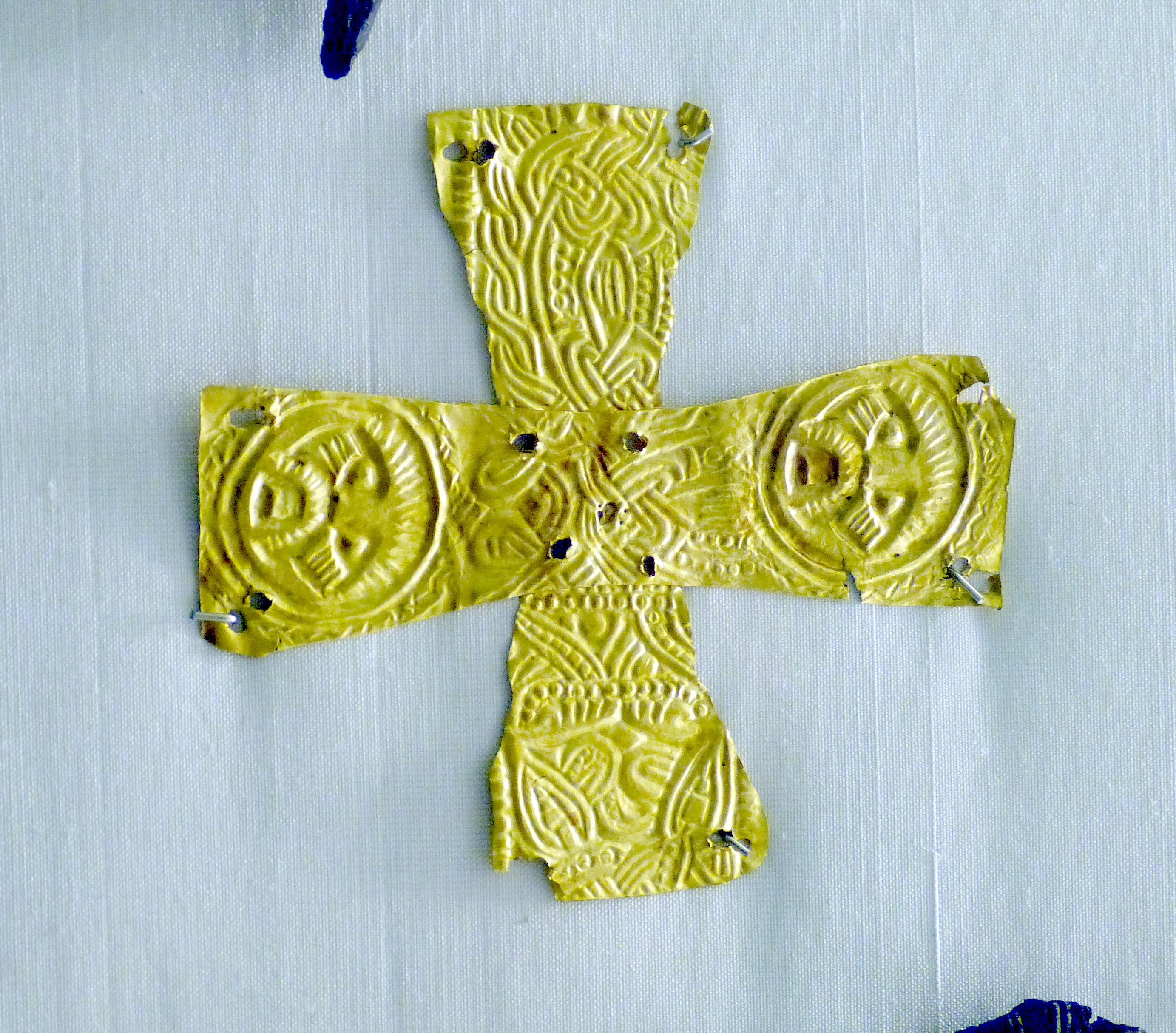 Konstanz ( Baden-Württemberg ). Archaeological Museum of Baden-Württemberg: Gold foil cross ( 7th century AD ) from grave 38 in Lauchheim.